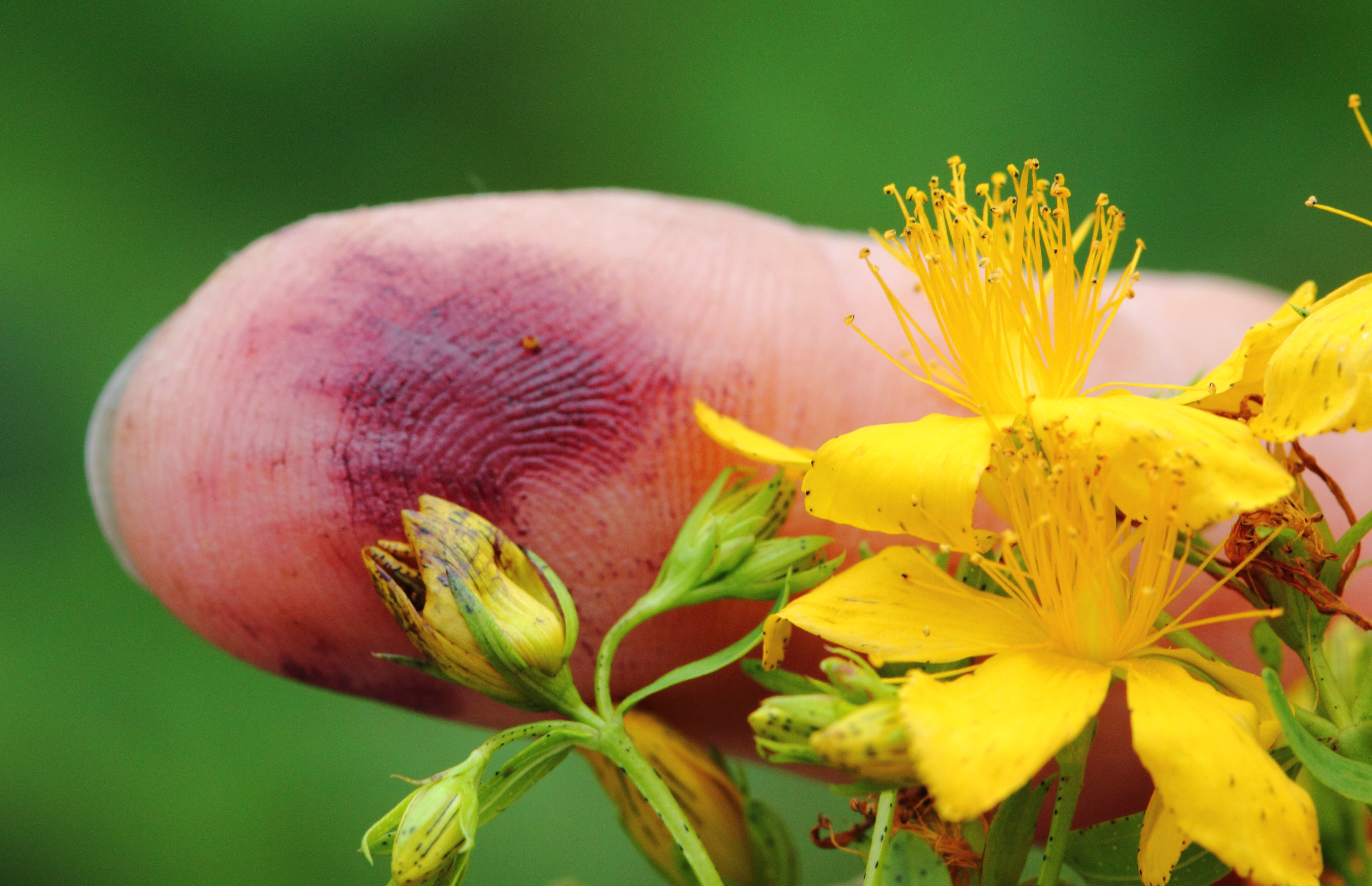 St John's wort exuding hypericin when buds are squeezed between fingers.